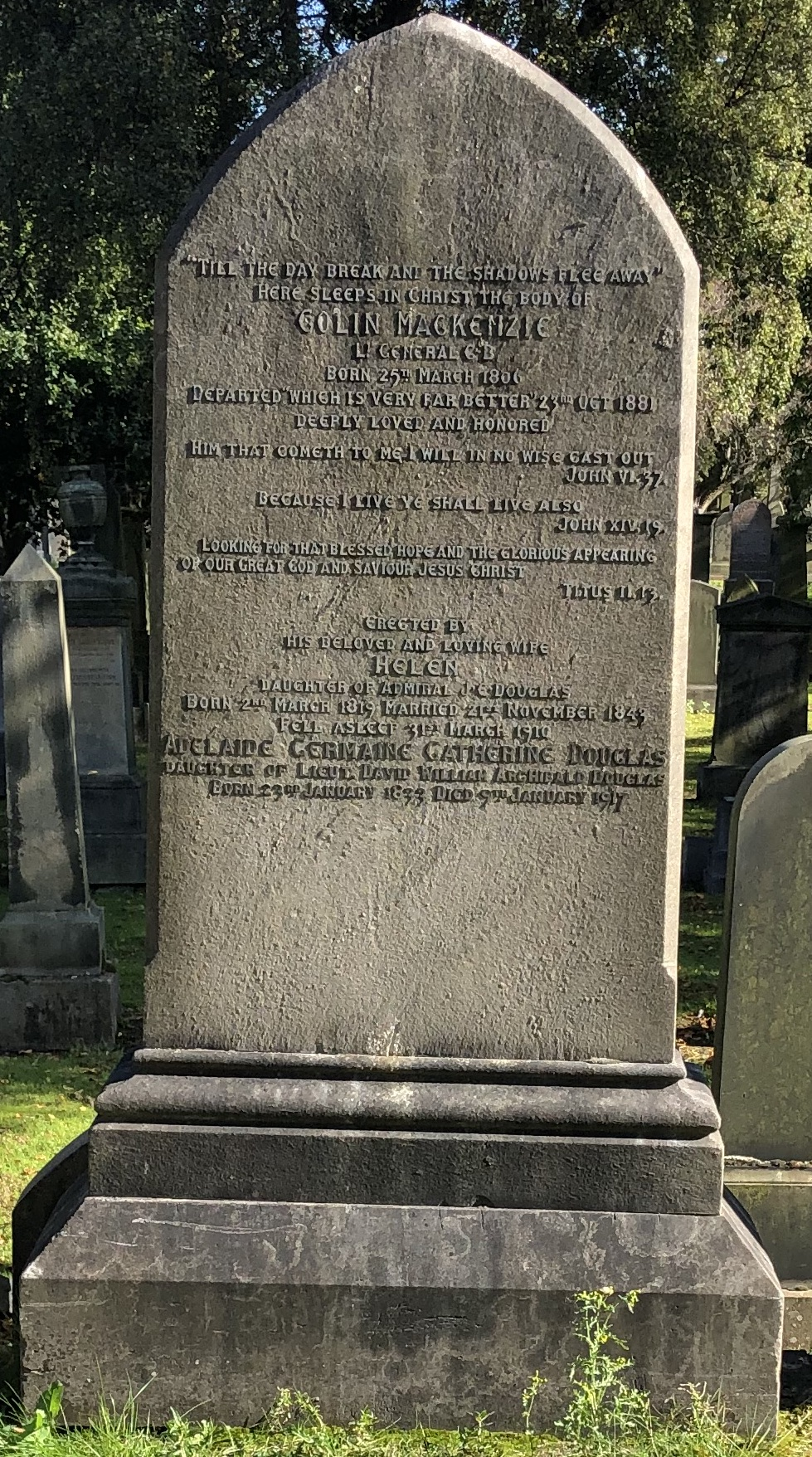 Gravestone of Lt-Gen Colin Mackenzie, Scottish officer in the Indian Army, in the Grange Cemetery, Edinburgh